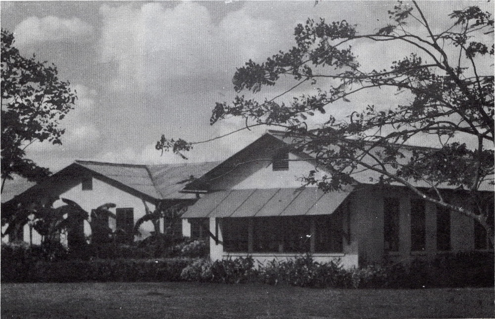 The staff school at San Tome, Venezuela in 1968. Grades kindergarten through 9th grade.